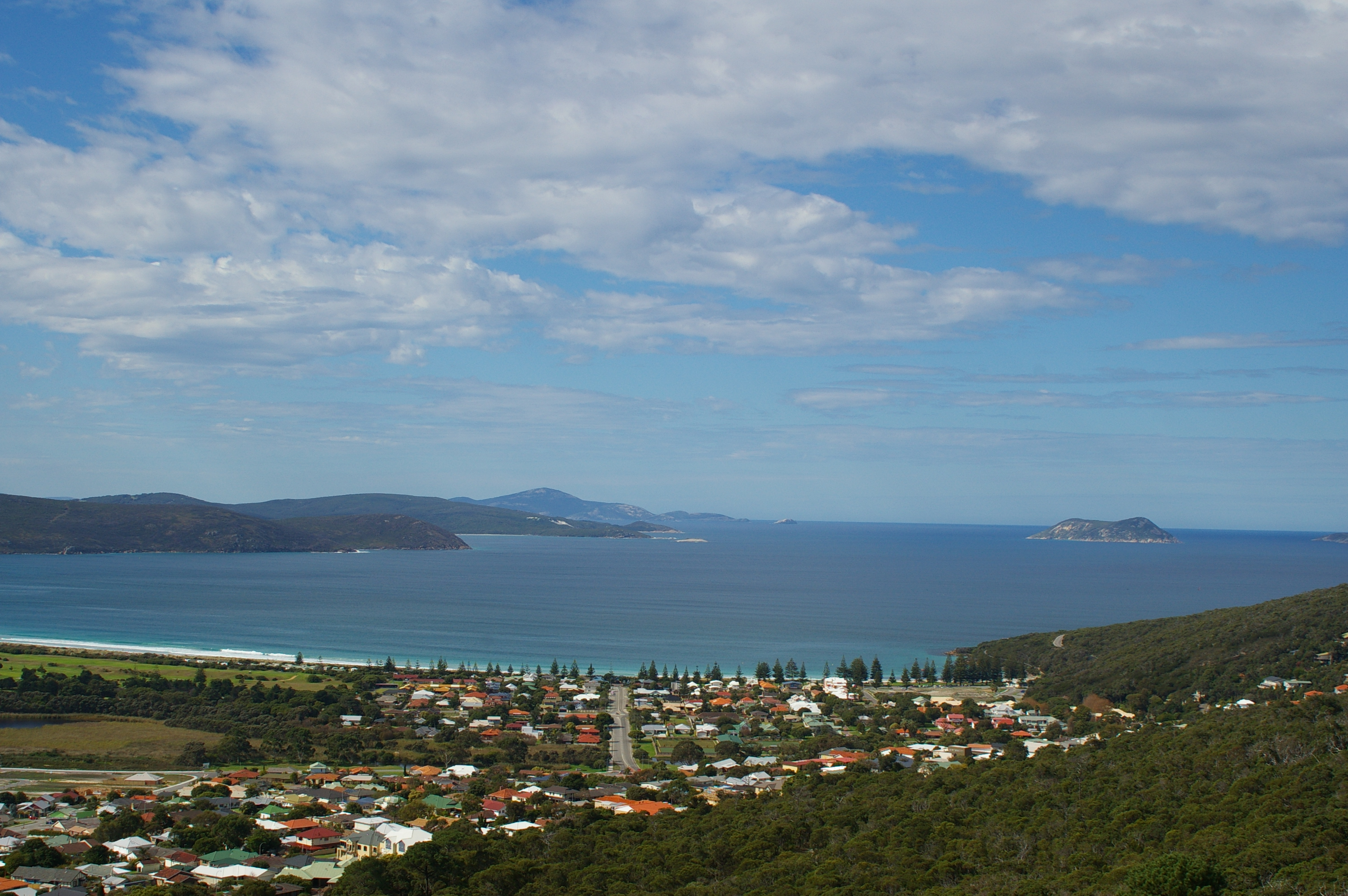 King George Sound Albany Western Australia (panorama, part 3 of 5)